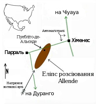 Strewnfield of Allende meteorite